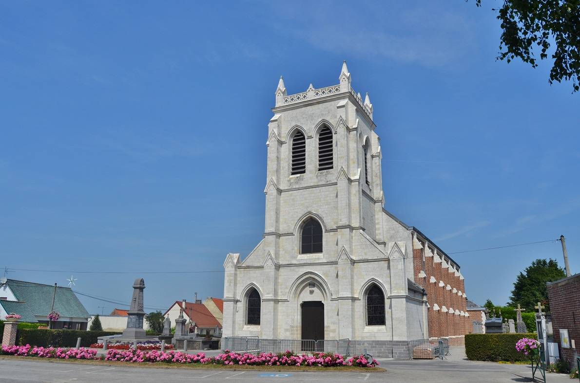 église Sacré-Cœur